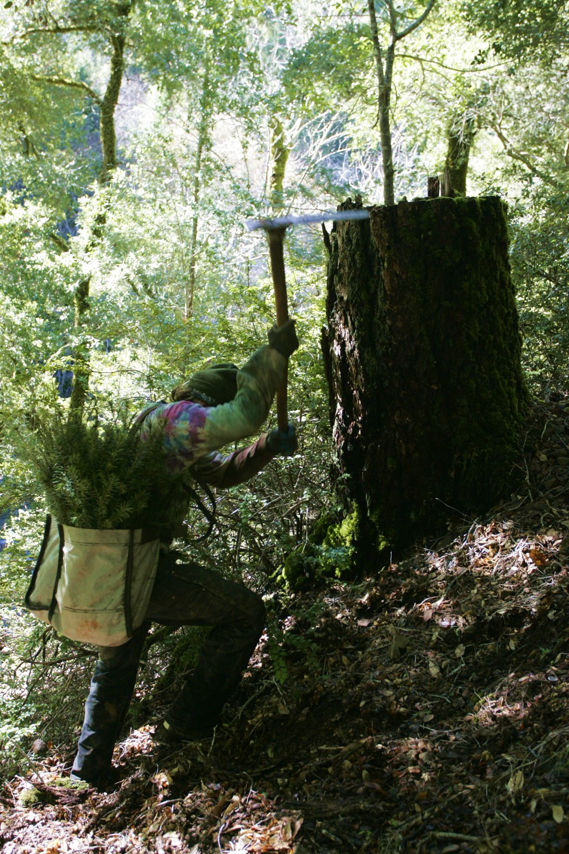 Volunteer replanting Douglas Fir in Mattole River watershed